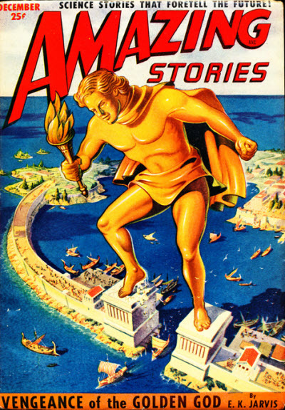 Cover of Amazing Stories, December 1950